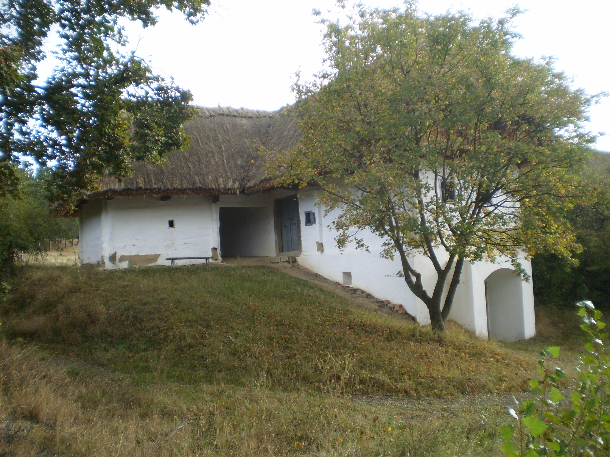 Press-house, Rédics, Hungary